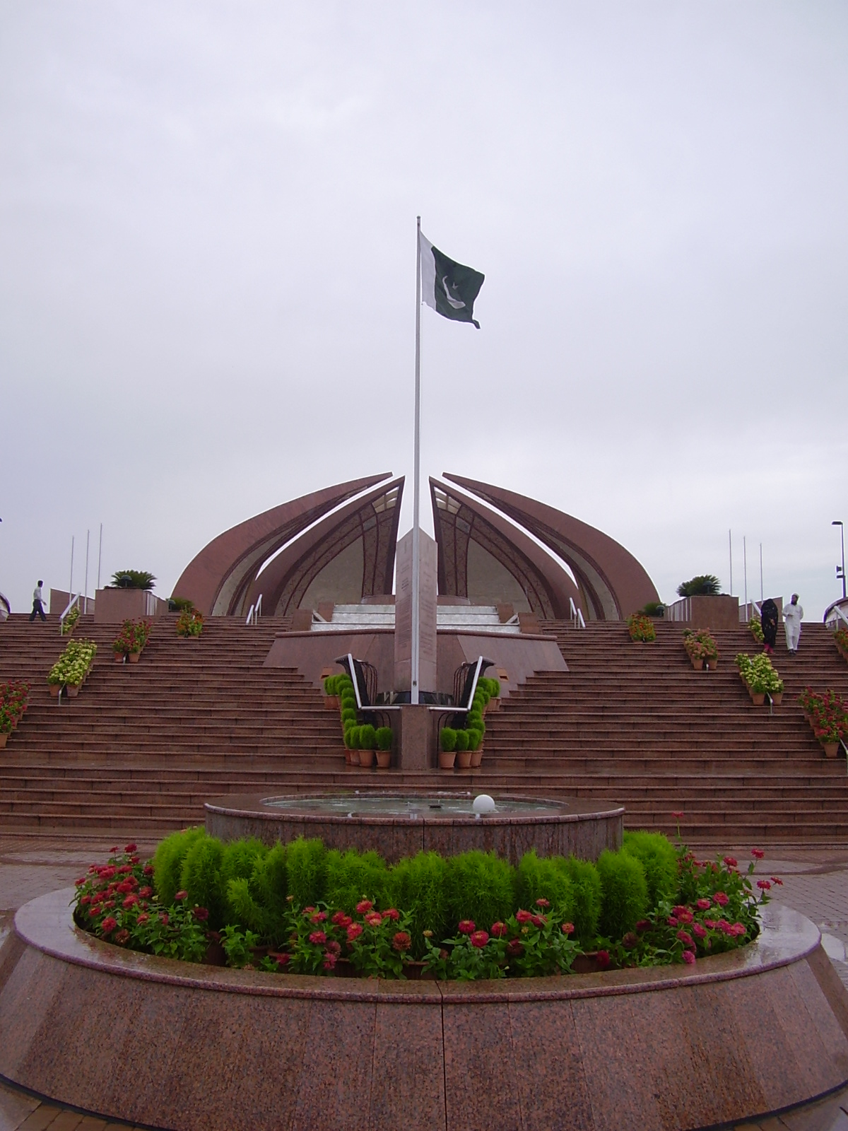 Flag of Pakistan fluttering on Pakistan Monument Islamabad